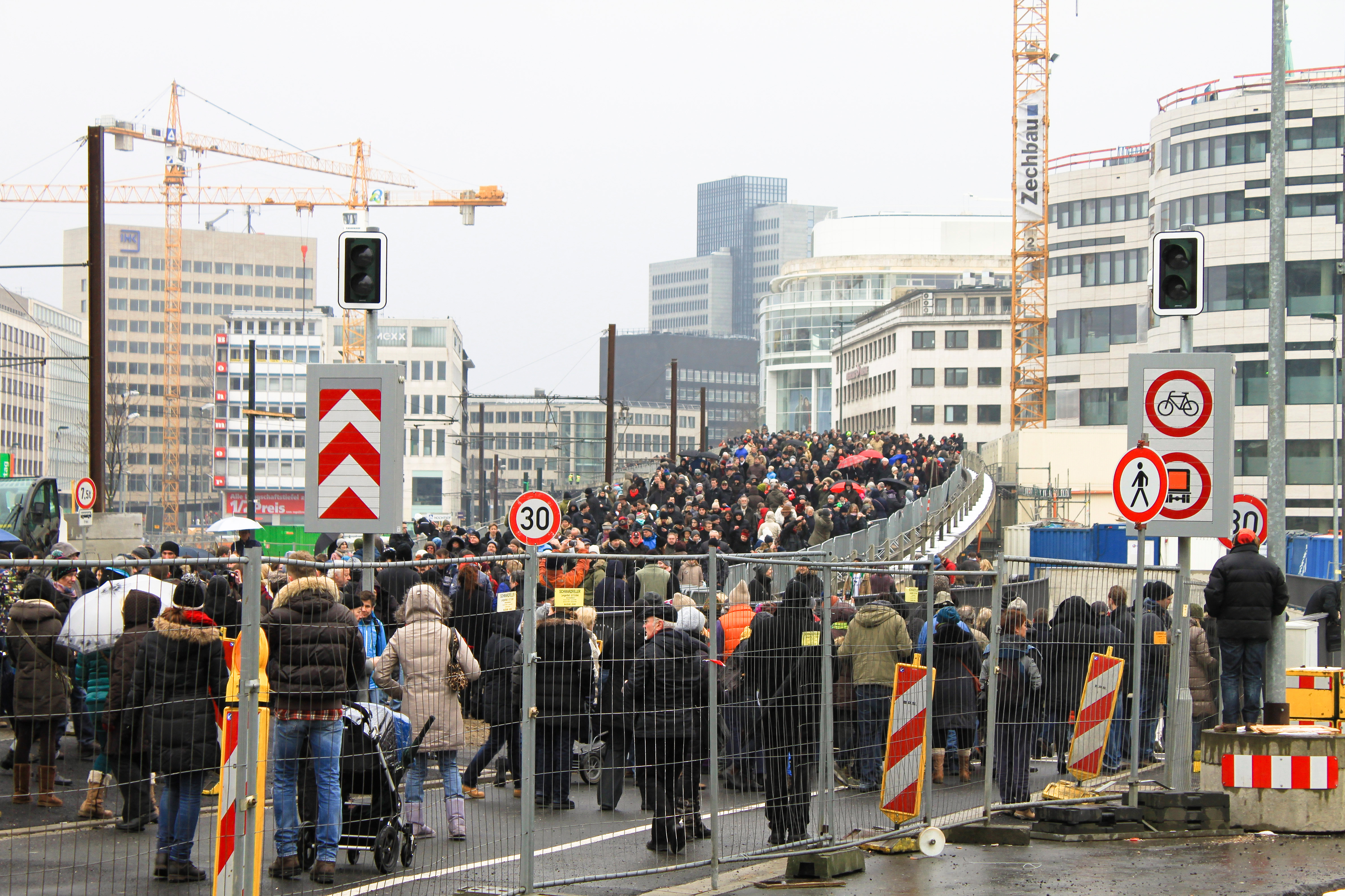 Walk over Tausendfüßler-brigde before falling down, Düsseldorf, 2013